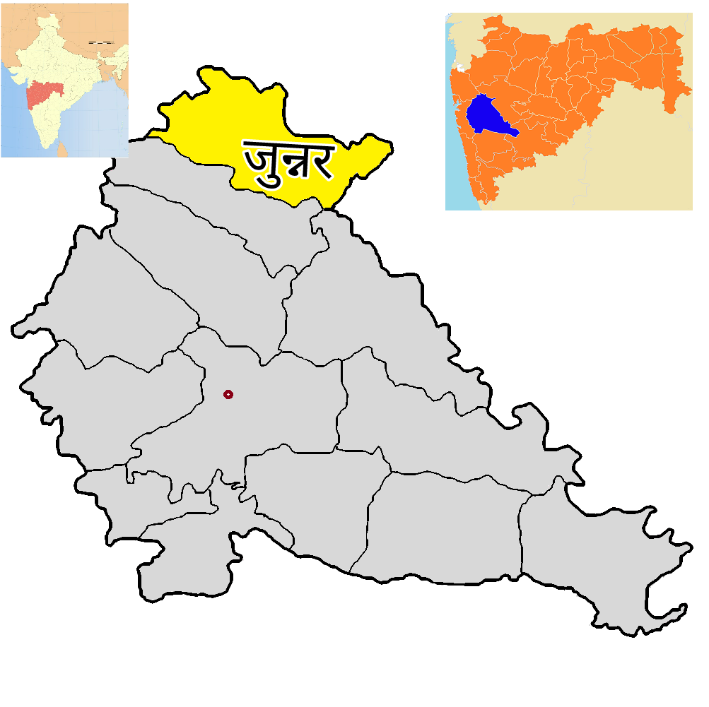 जुन्नर पुणे